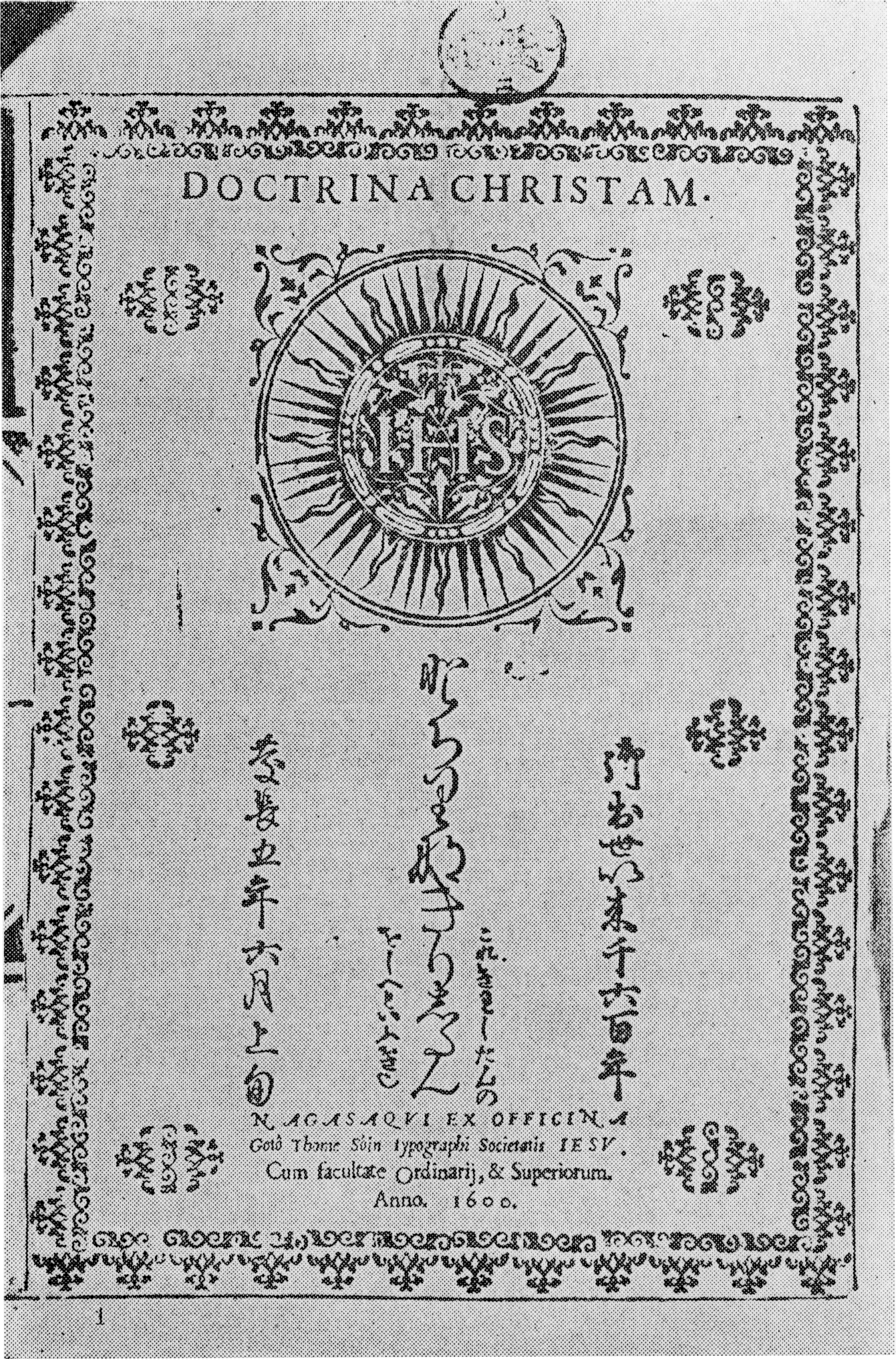 The cover of Doctrina Christam published in Nagasaki